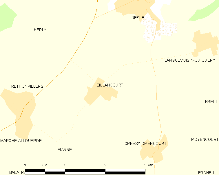 Map of French municipality Billancourt